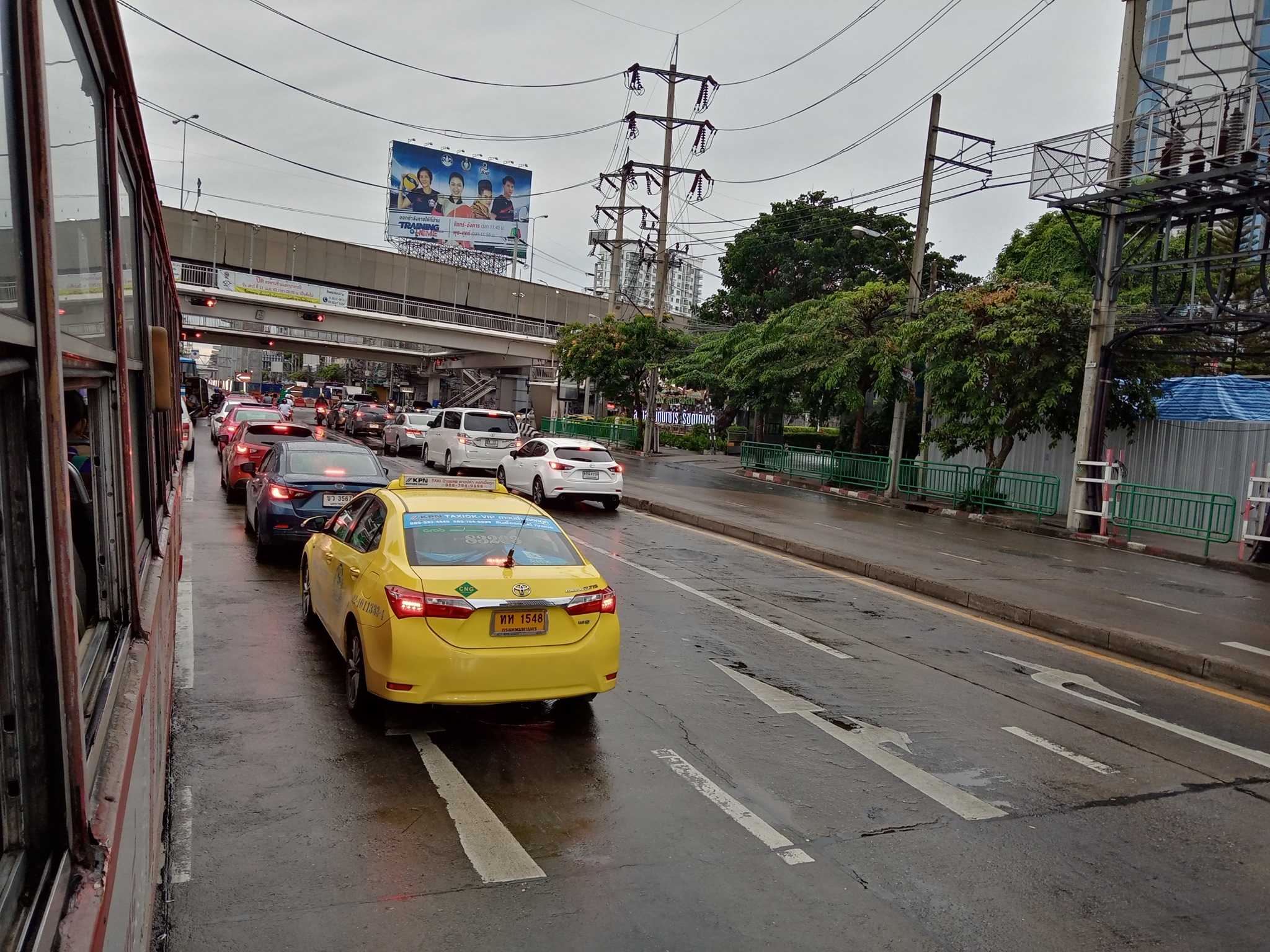 Lat Phrao Rd. near Ratchada-Lat Phrao Intersection.